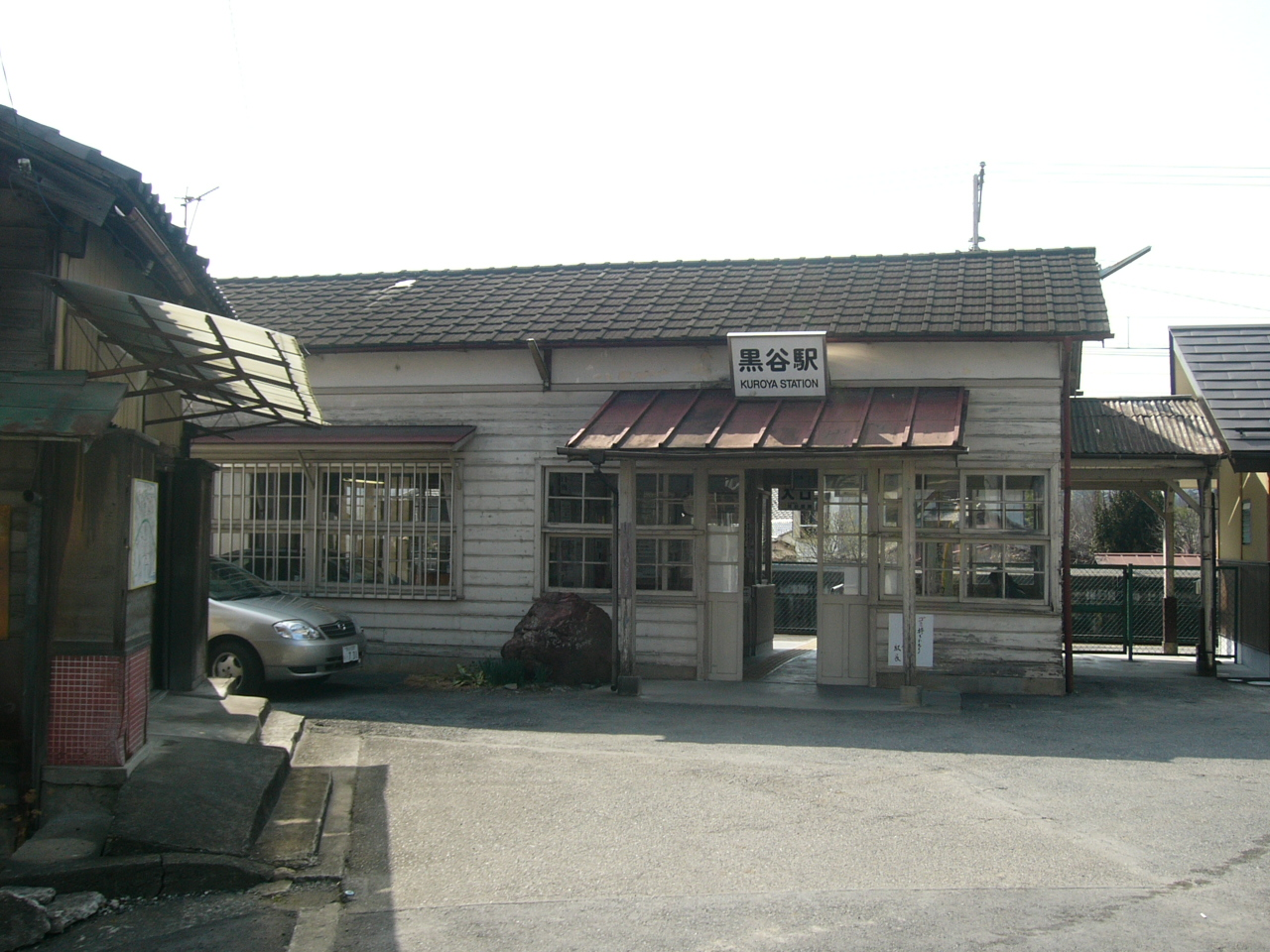 Kuroya Station (renamed Wado-Kuroya from 2008) on the Chichibu Main Line in Saitama Prefecture, Japan